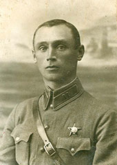 Mikhail Petrovich Konstantinov wearing the insignia of a major, likely between 1936 and 1938